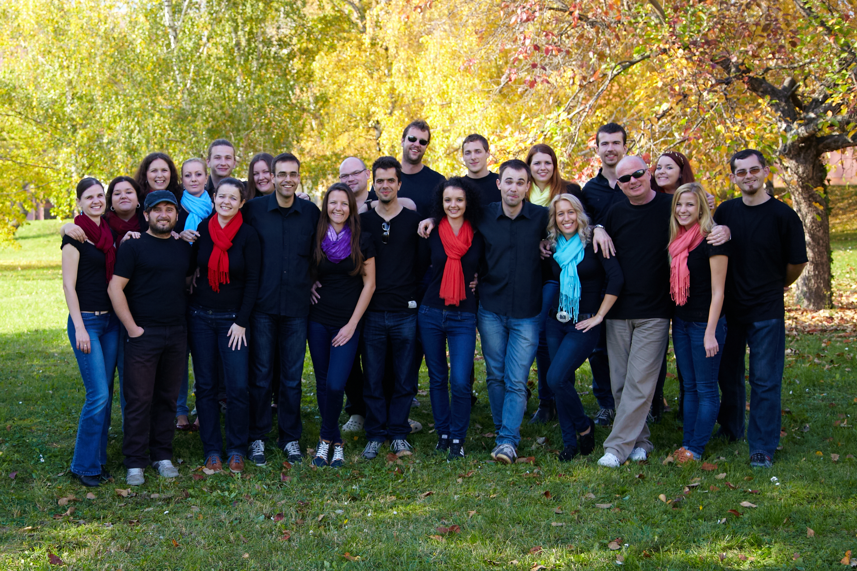 Mixed choir Tirnavia